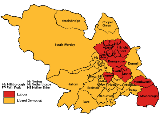 Ward map of Sheffield Council with political colouring for the 1999 election.